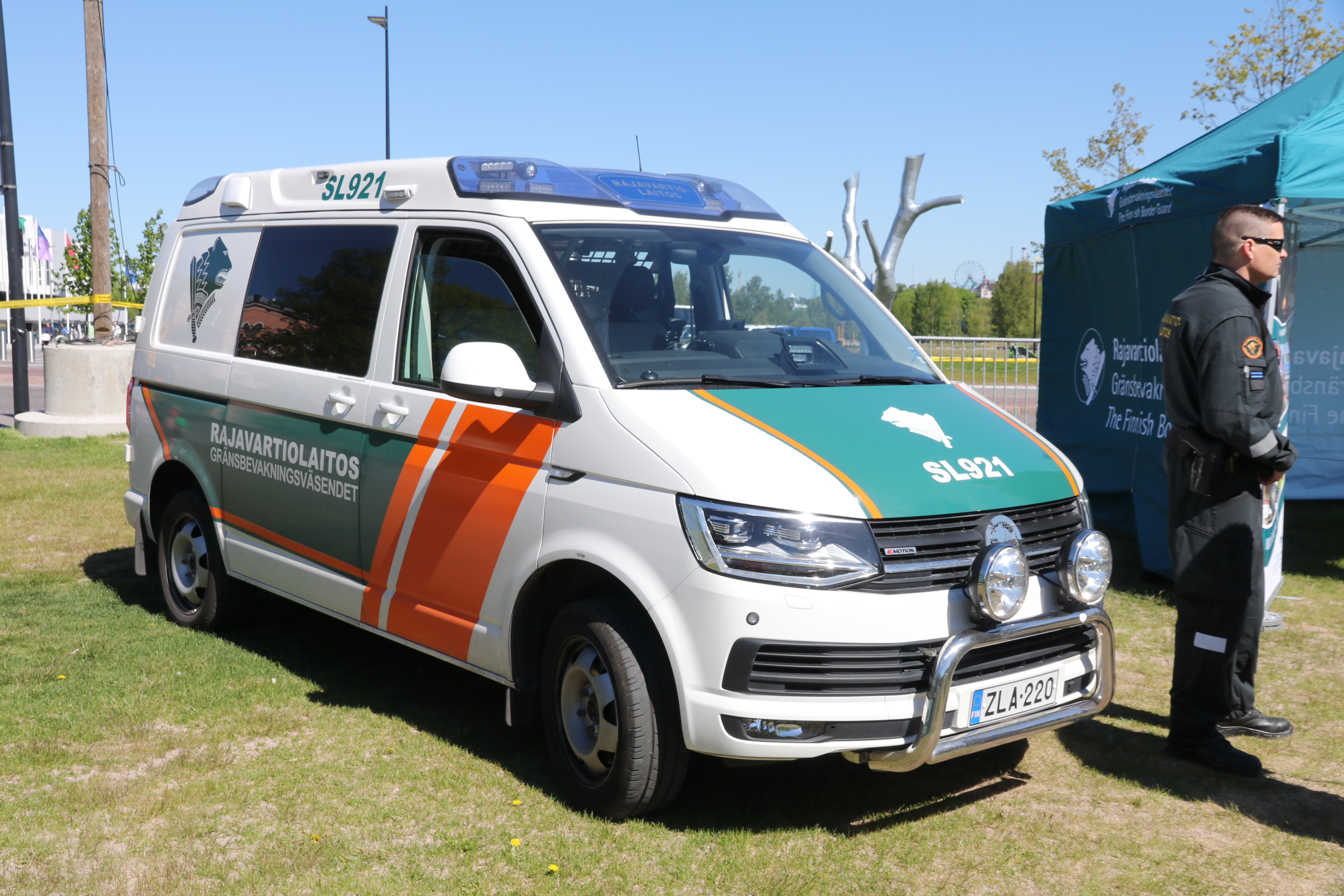 Finnish defence forces flag day 2017 equipment exhibition: Finnish border guard van.